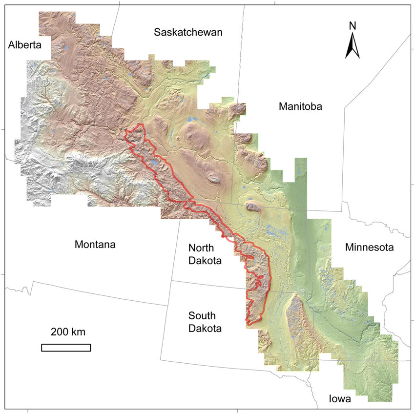 Map of the Prairie Pothole Region of the United States and Canada (colored area) and the Missouri Coteau (red outline). Modified from Liu and Schwartz (2012).